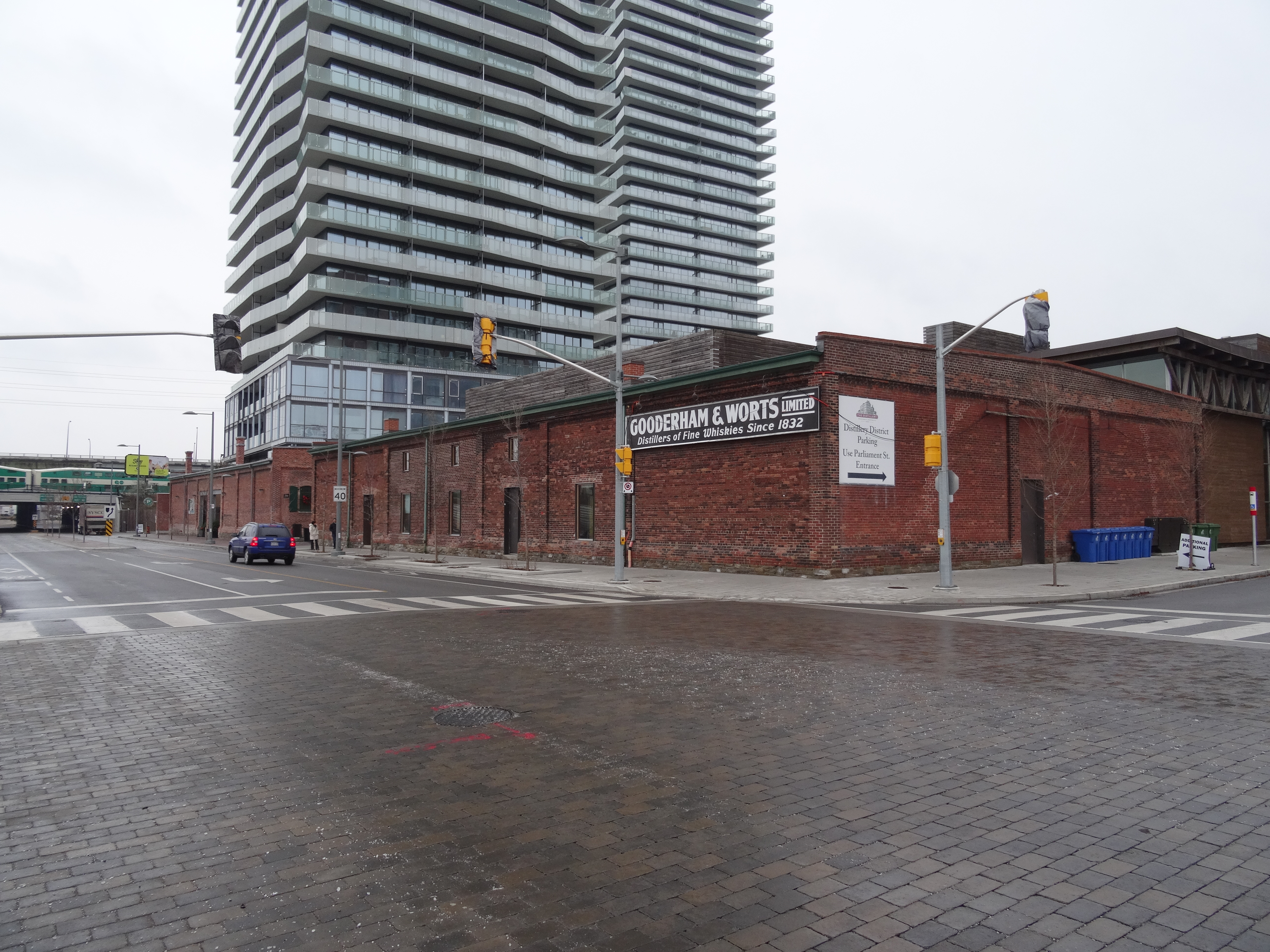 Exploring the distillery district, 2014 12 03 (13).JPG